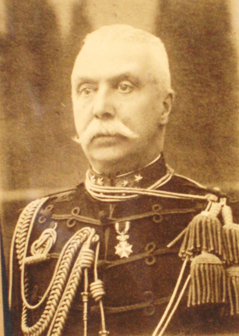 Lannoy